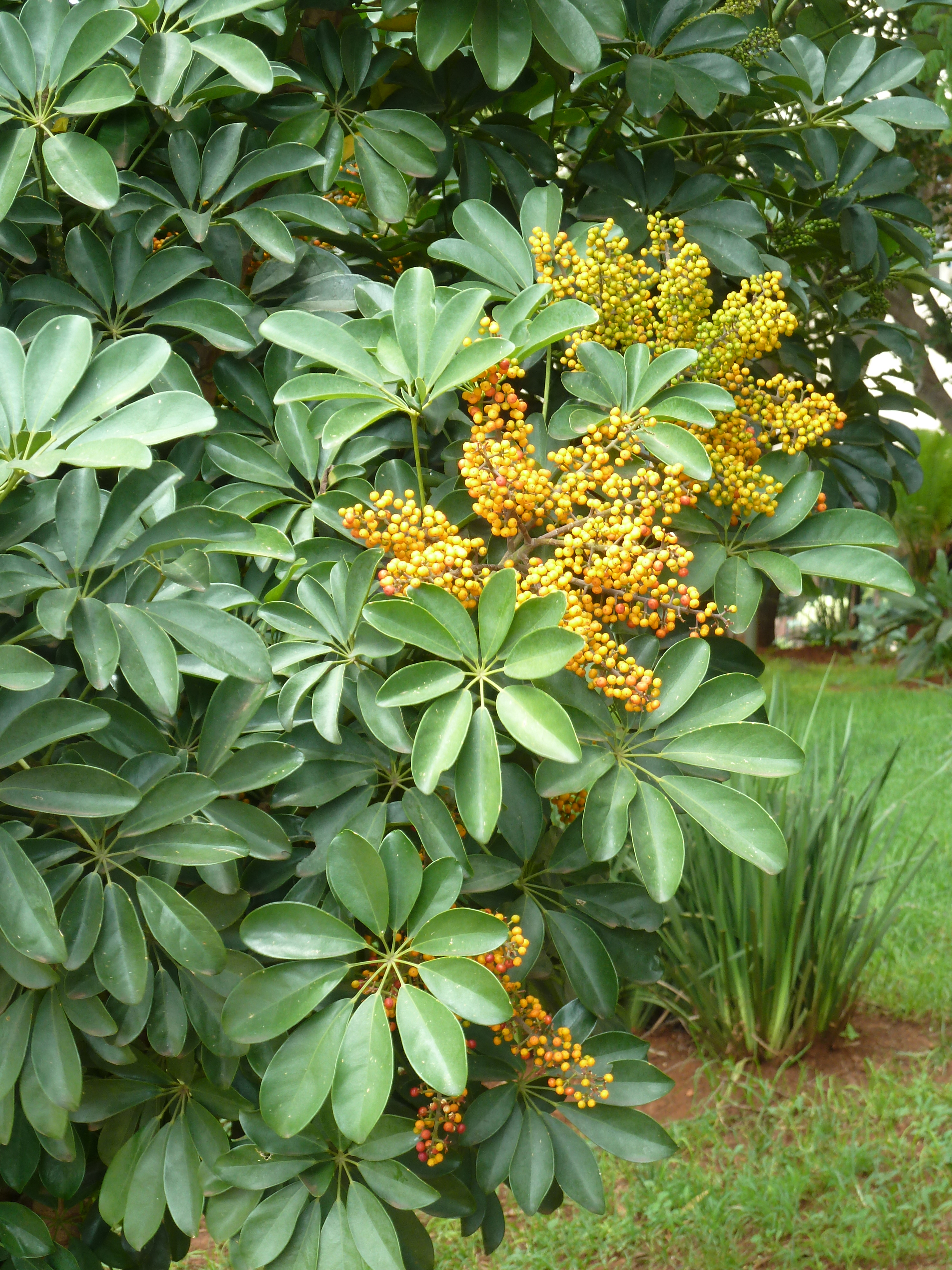 Fruit of Schefflera arboricola